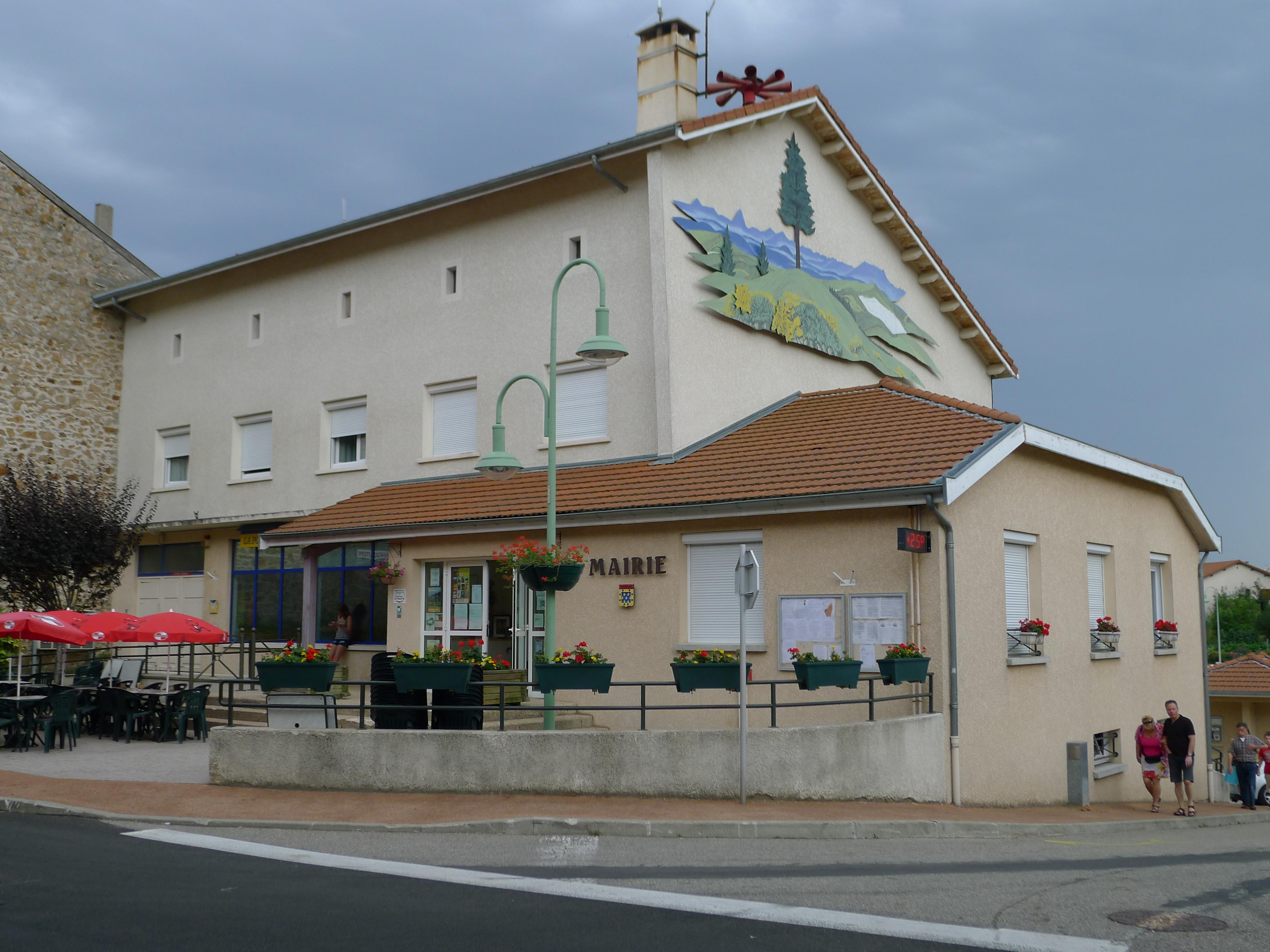 Town hall of Lalouvesc - Ardèche - France